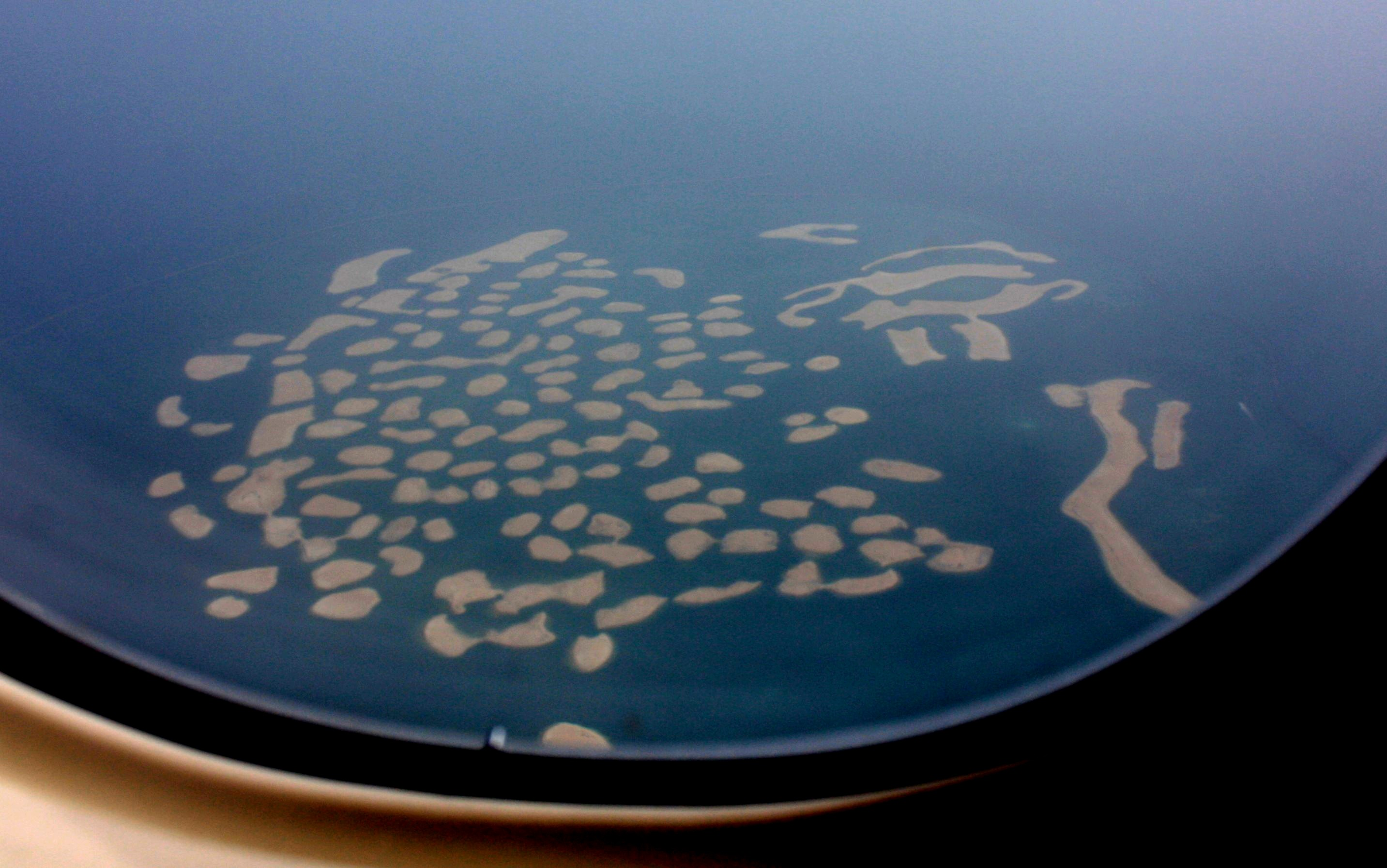 The World in Dubai from an airplane